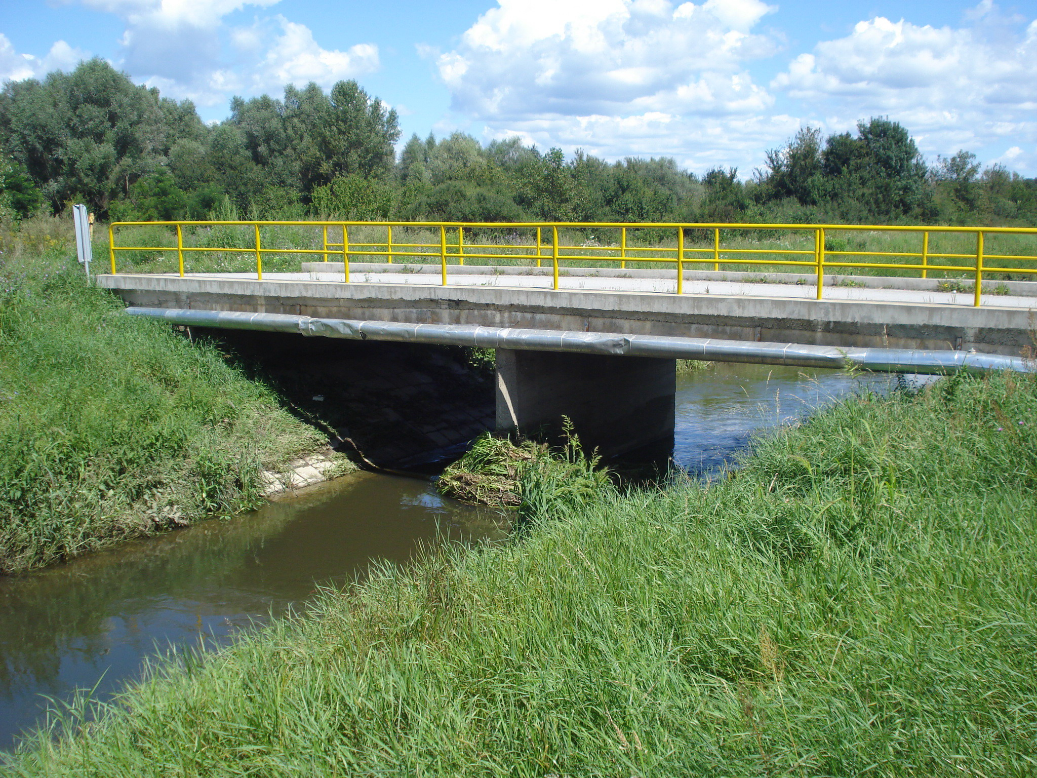 Road bridge over the Trnava river in Držimurec, Međimurje County, CroatiaHrvatski: Cestovni most na rijeci Trnavi u Držimurcu, Međimurska županija, Hrvatska